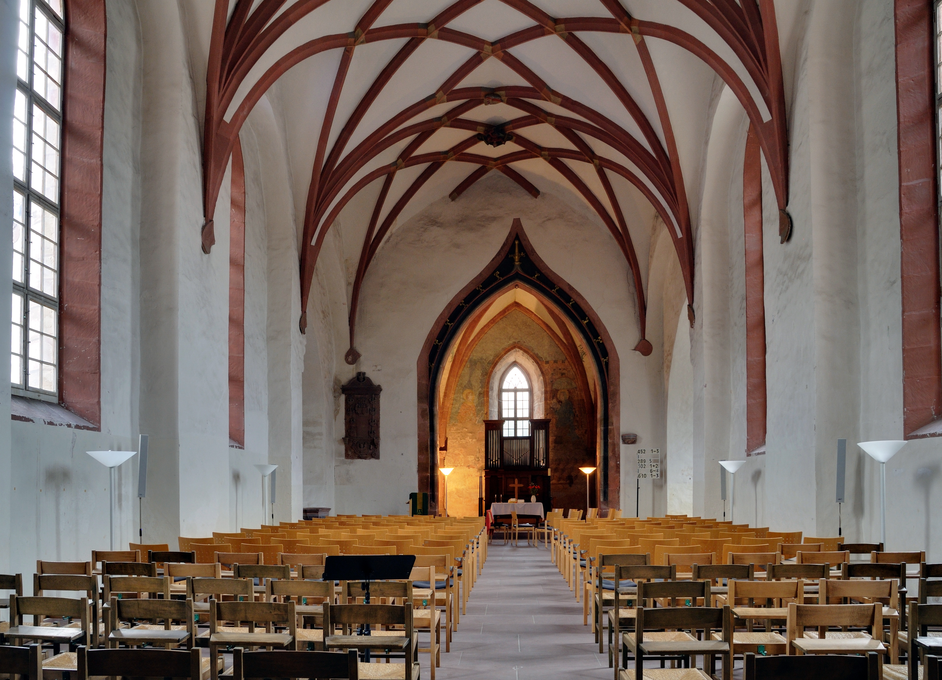 Schopfheim: Old City Church